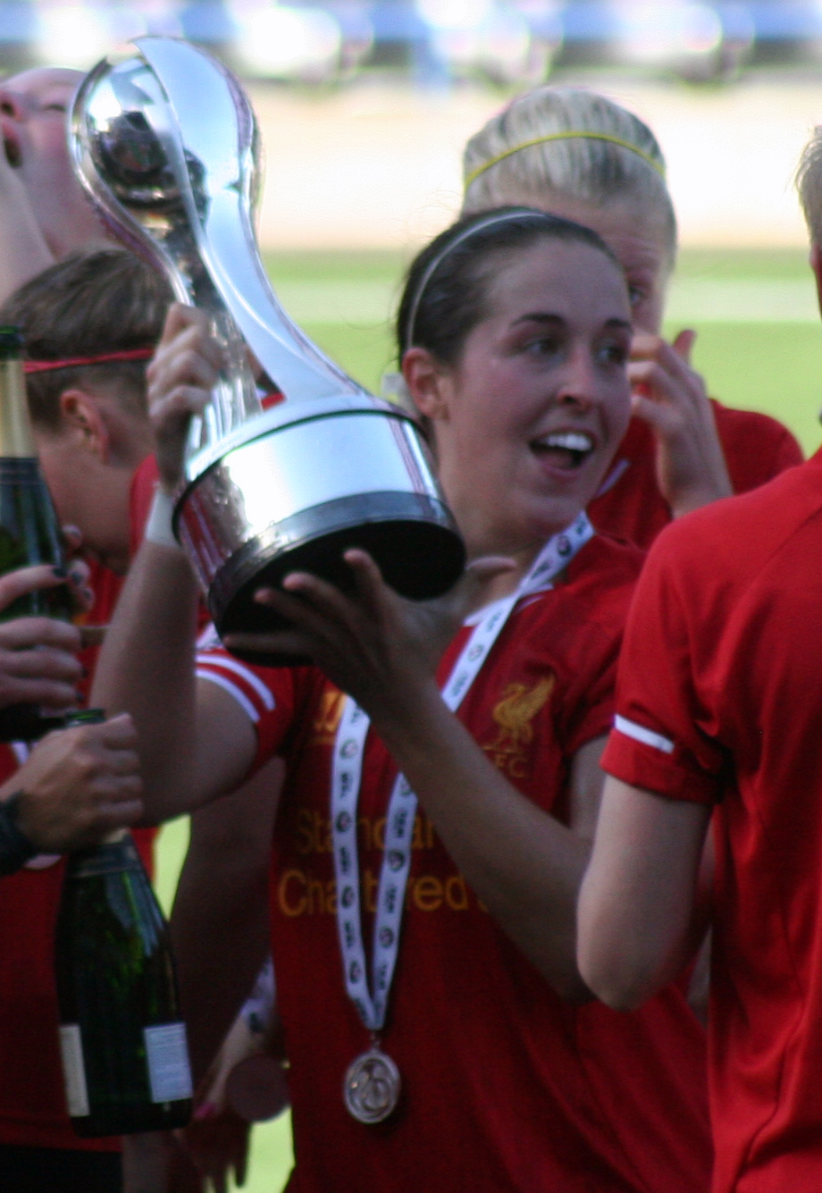 Liverpool L.F.C. - 2013 FA WSL Championship celebration